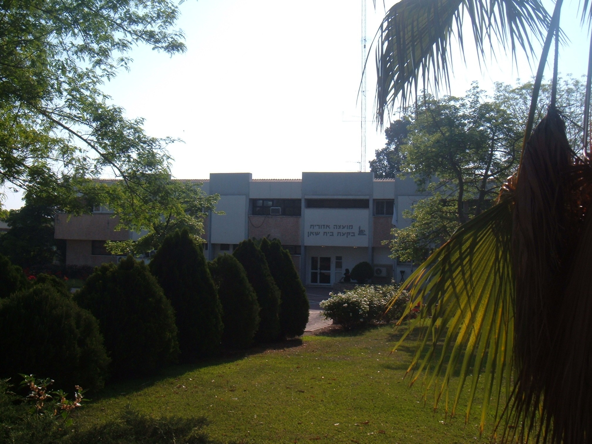 Regional council Biqat Bet Shean מועצה איזורית בקעת בית שאן (עמק המעיינות)